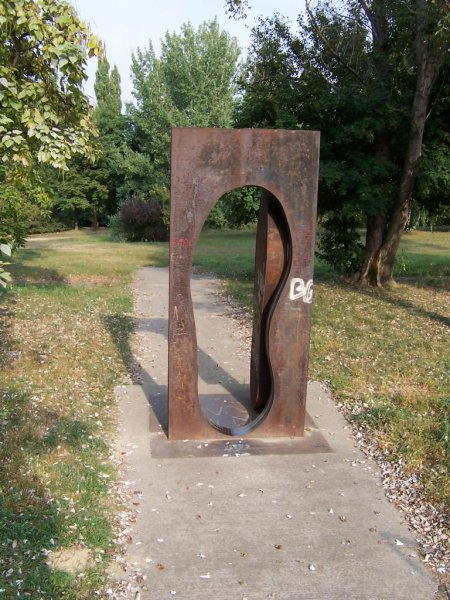 Gateway to the Future (Dunaújváros, Panorama Street, Hungary)